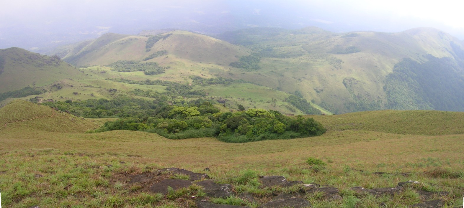 Shola in Tadiandamol showing Strobilanthes edges